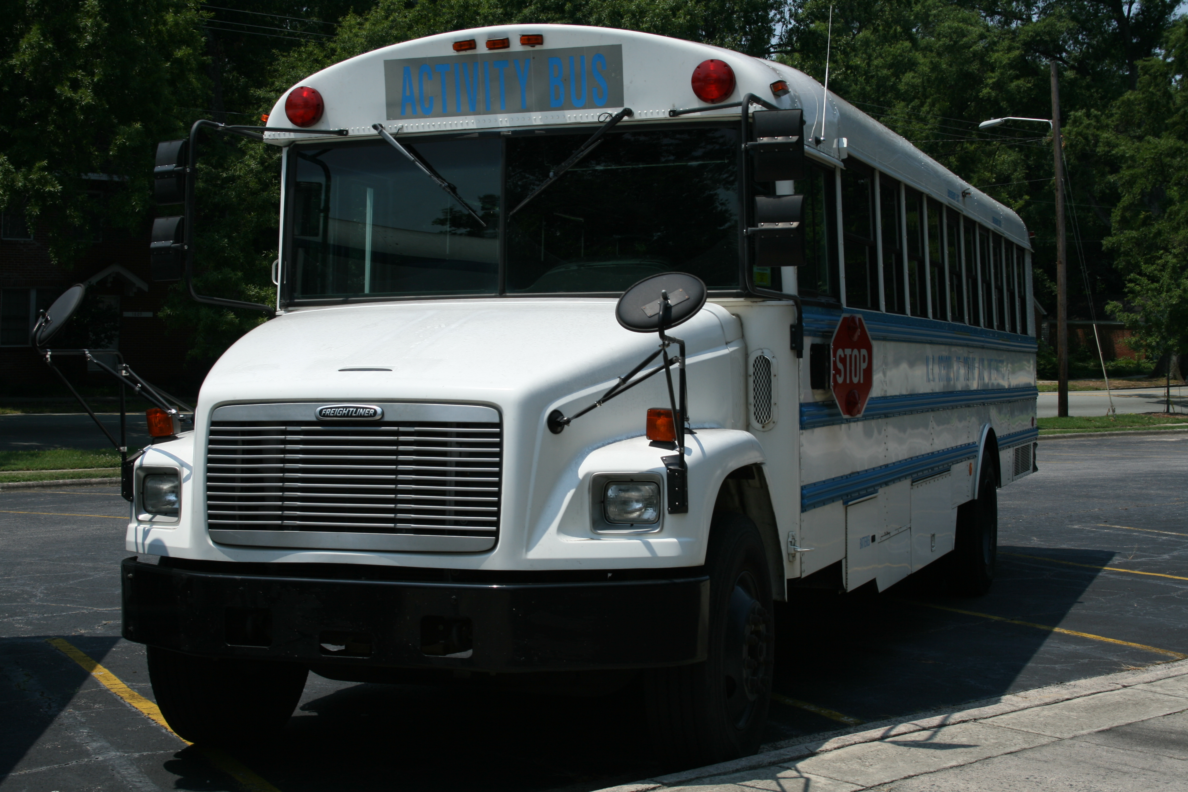 A North Carolina School of Science and Mathematics activity bus, parked in the school's parking lot.